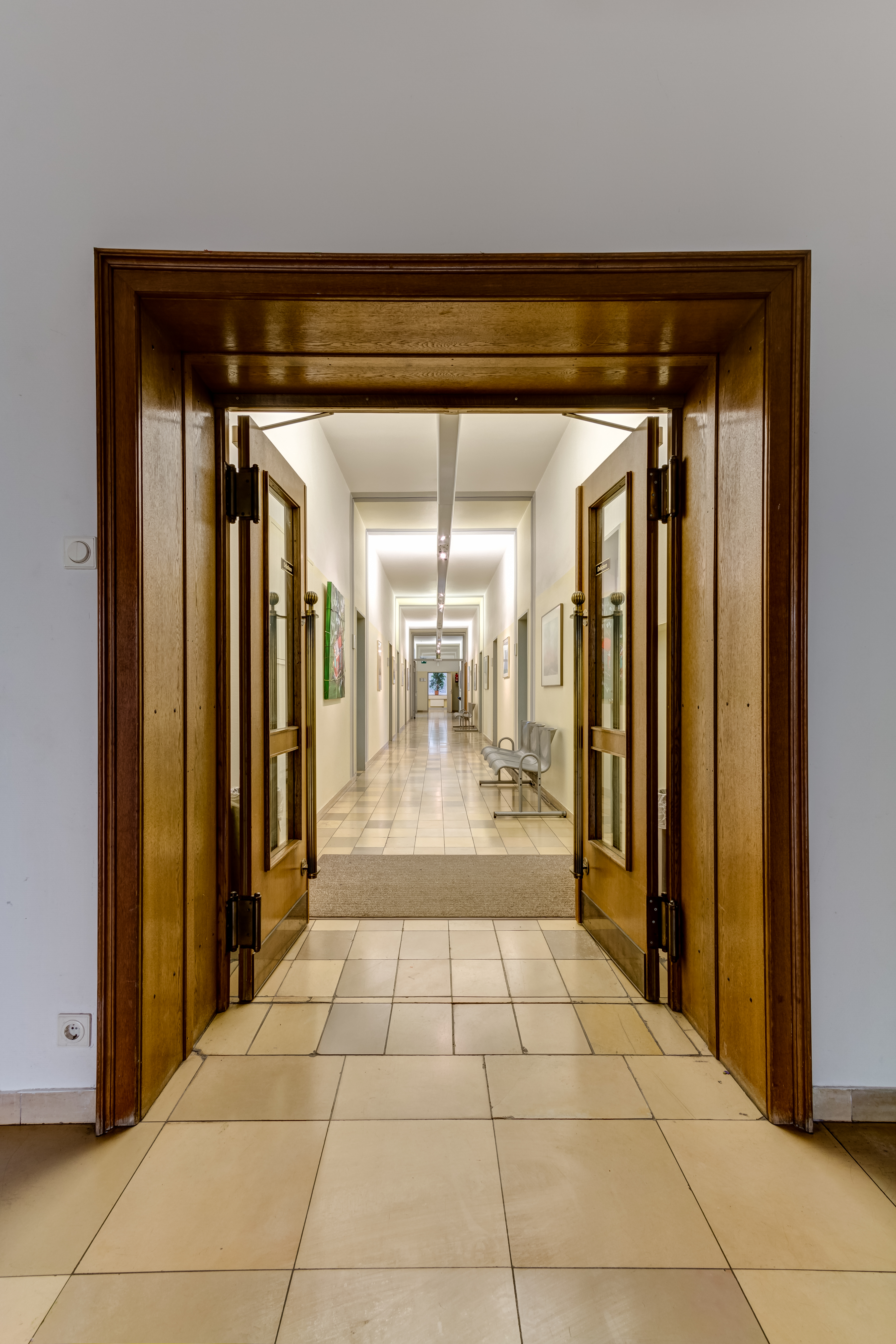 Interior of town hall in Dülmen, North Rhine-Westphalia, Germany This image shows a heritage building in Germany, located in the North Rhine-Westphalian city Dülmen (no. 126).